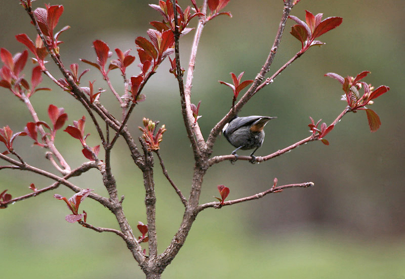 Rufous-vented Tit Parus rubidiventris in Kullu District of Himachal Pradesh, India.